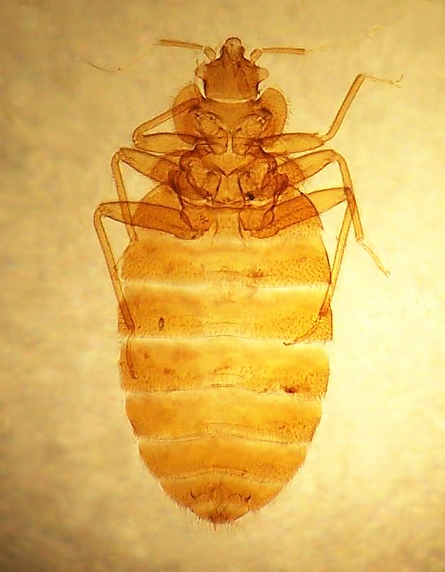 Cimex lectularius, the common bedbug, from slides at the University of Edinburgh.